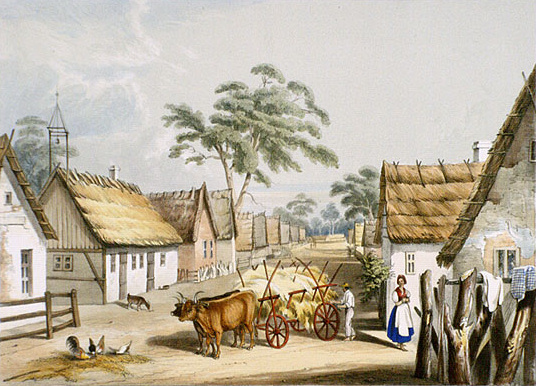 Klemsic, planographic; relief lithograph, printed in colour, from multiple stones; varnish highlights by brush, 37.0 x 55.6 cm, by George French Angas